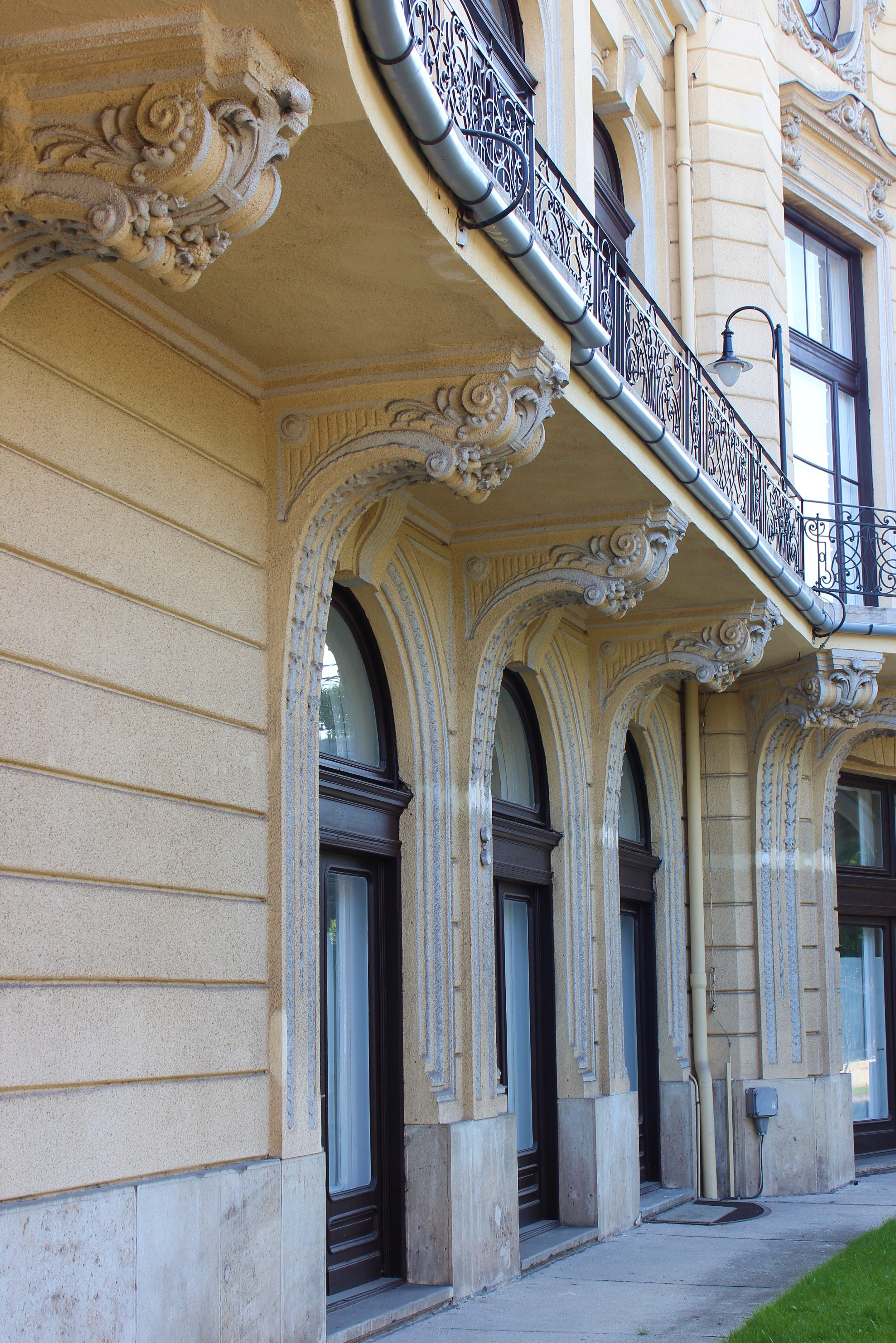 Sefánia Palace in Zugló, Budapest